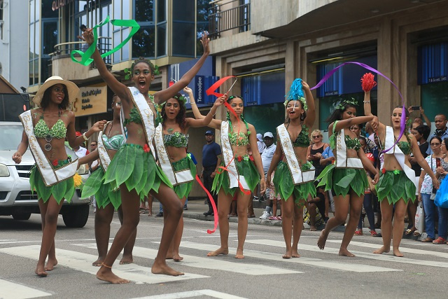 34th edition of the Seychelles’ Creole Festival -- an annual celebration of the island nation’s culture and tradition